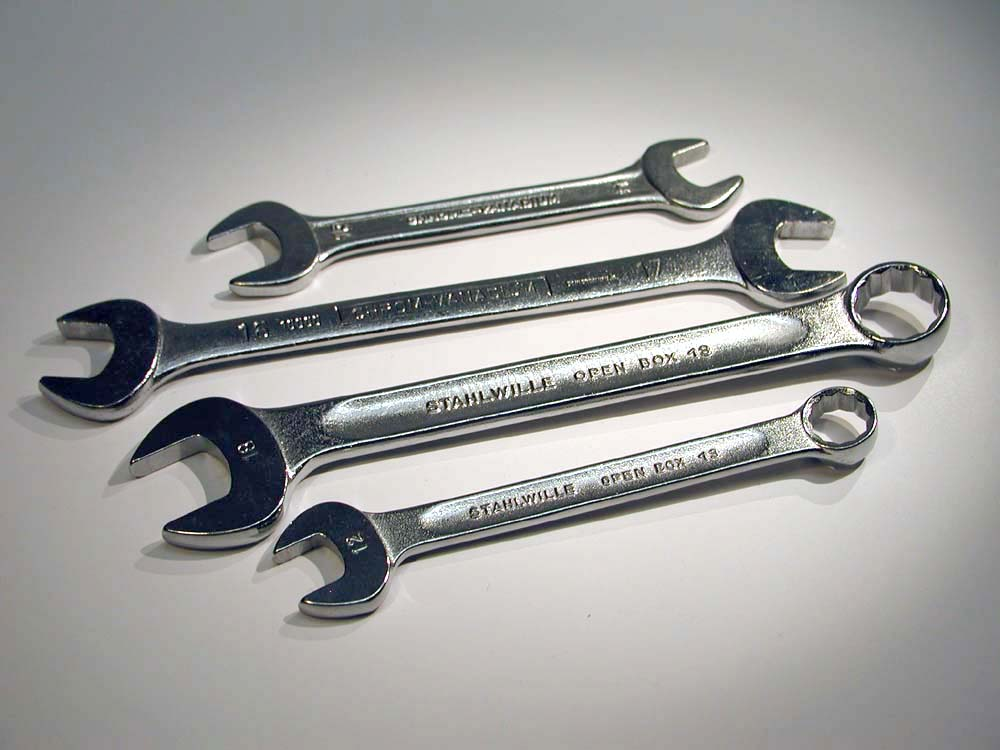 Wrenches